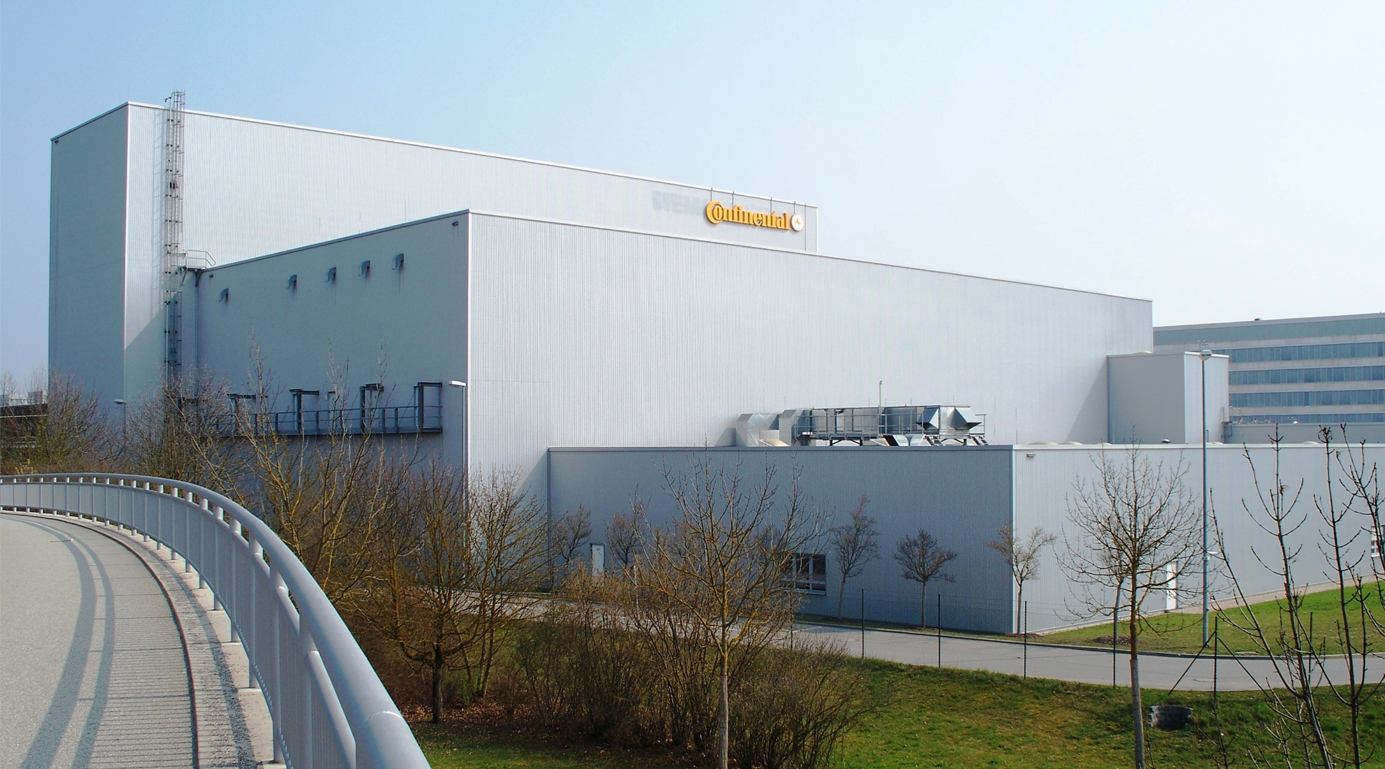 Site of Continental Automotive in Regensburg.